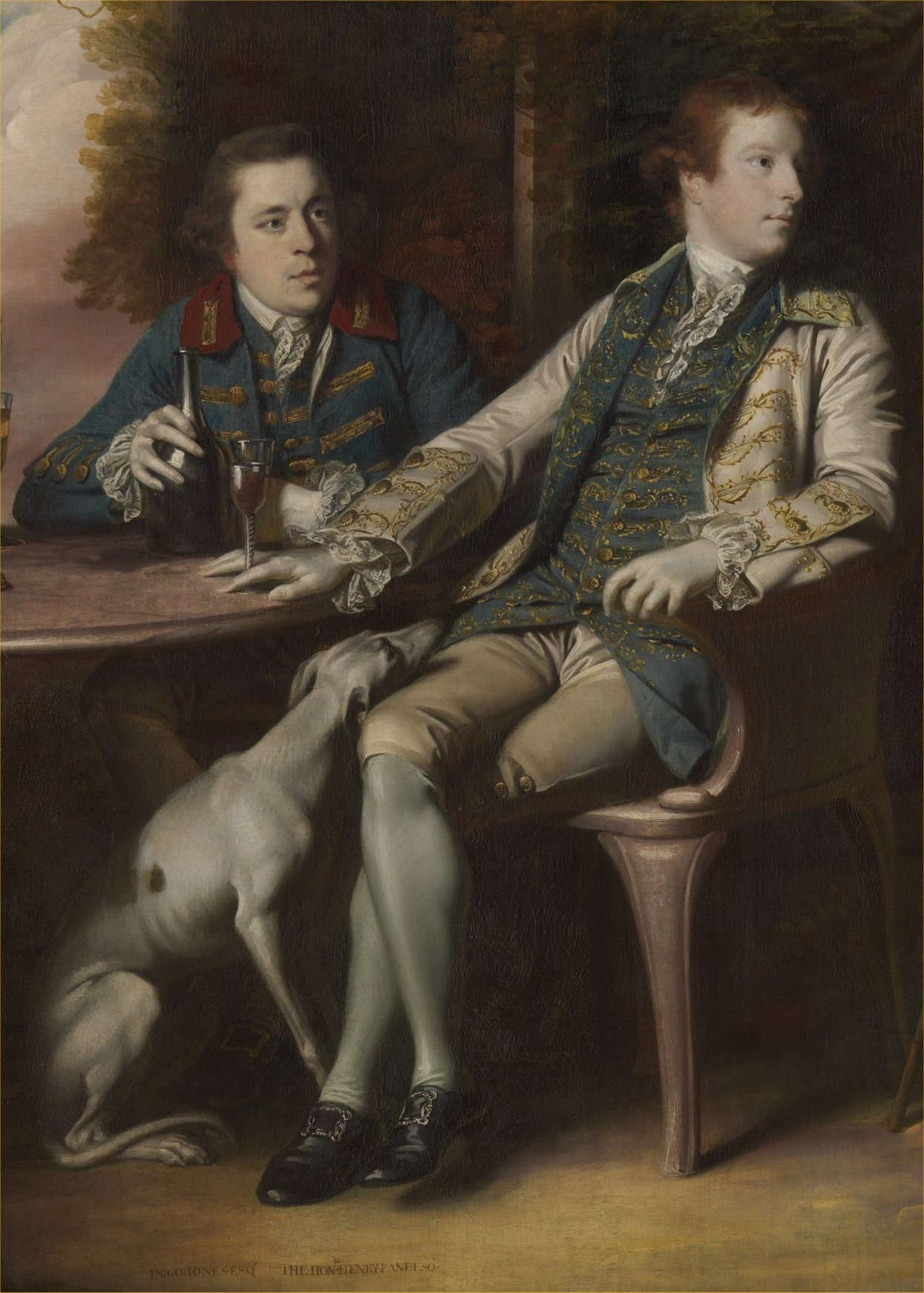 Inigo Jones (L, relative of famous architect) and Henry Fane (R) - detail from a painting of The Honorable Henry Fane (1739–1802) with His Guardians. By Sir Joshua Reynolds 1723–179? This painting is in the public domain by virtue of age. It is part of the Metropolitan Museum of Art's collection of European Paintings